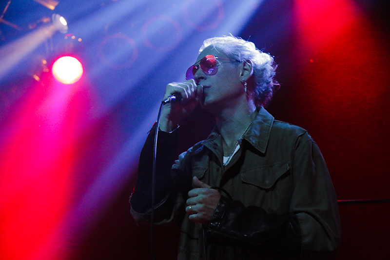 Matisyahu